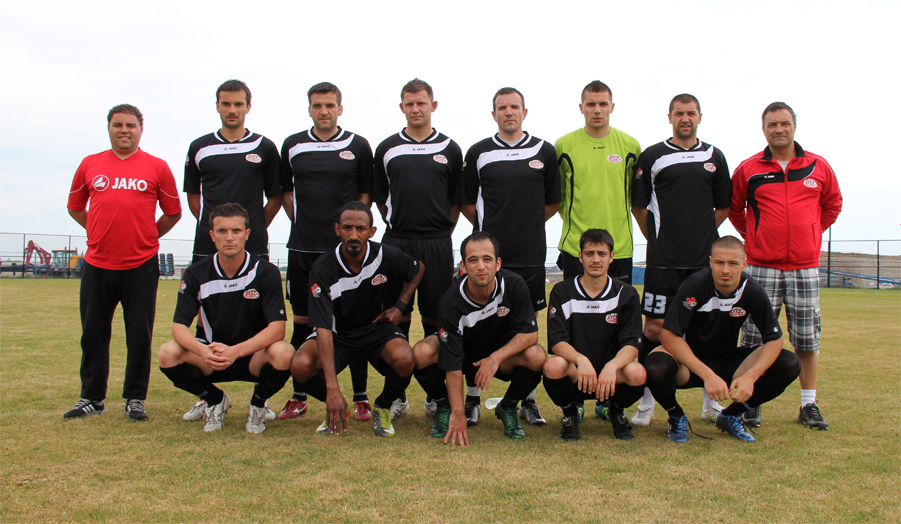 One of the versions of the 2012 starting line-up. Top row, from left to right: Stanislav Zvezdić (head coach), Nenad Begović (captain), Rade Novković, Zvonko Bakula, Ranko Golijanin, Zoran Pušica, Dalibor Mitrović and Jasmin Halkić (ass't coach). Bottom row: Nenad Nikolić, Alseen Mohamed, Gent Miftari, Milan Janikić and Yas Halkić.